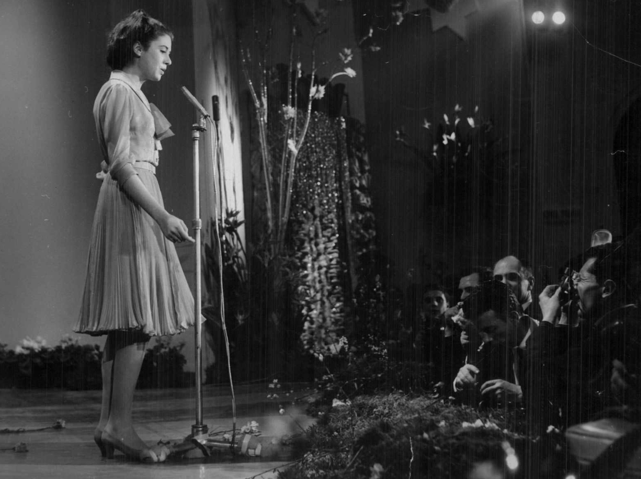 The then sixteen-year-old Gigliola Cinquetti on stage at the 14th Sanremo Music Festival performing Non ho l'età (Italian for I'm Not Old Enough); the song went on winning both the Festival and the subsequent European Song Contest in Copenhagen claiming the first ever victory for Italy in the latter international competition.